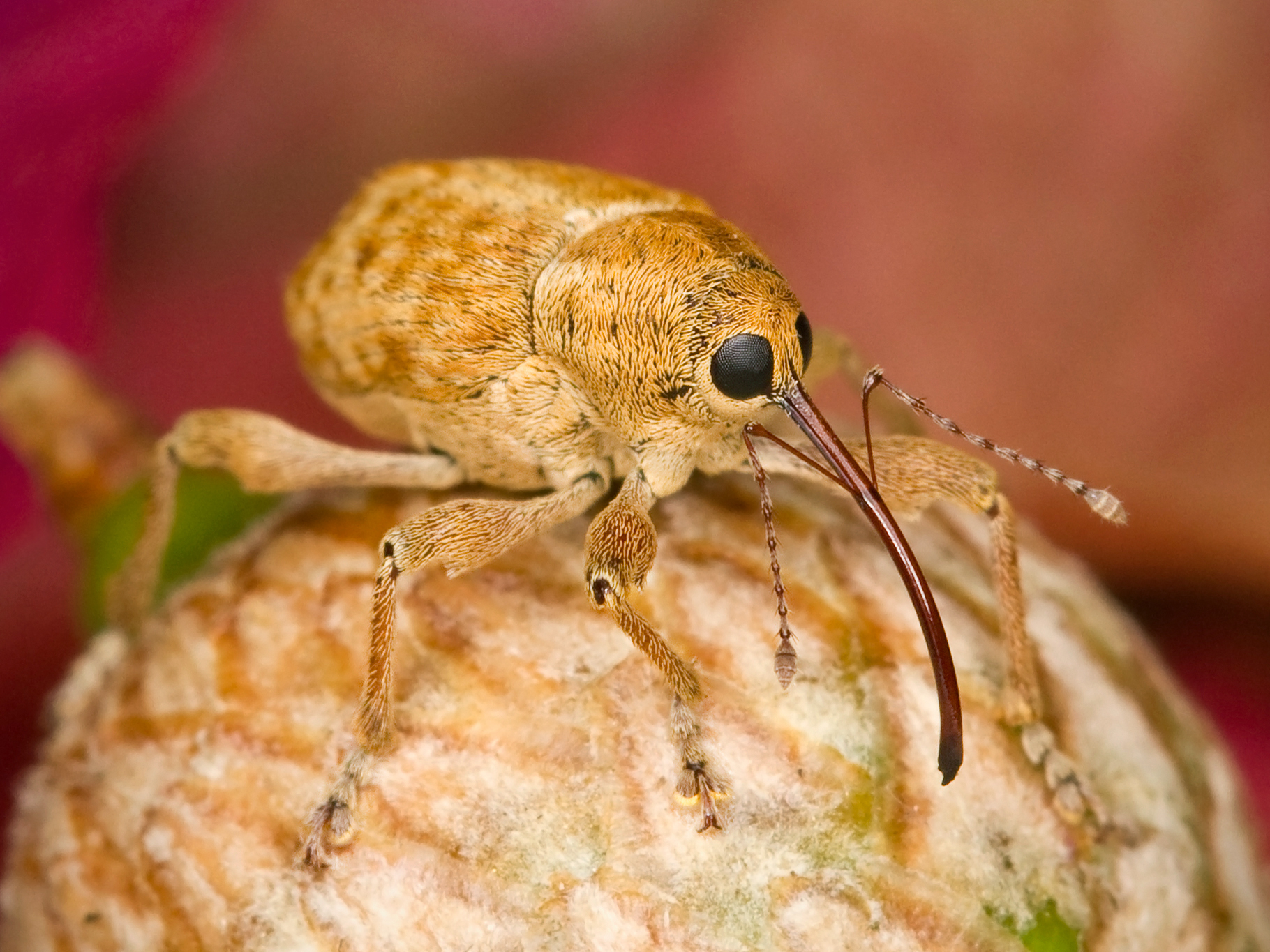 A Filbert weevil (Curculio occidentis). Collected from a Live Oak tree (acorn pictured) in Knowland Park, Oakland, California.